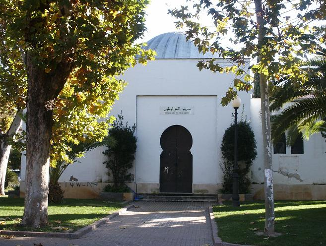 Mosque of El Morabito in Colon Gardens, Córdoba, Spain.